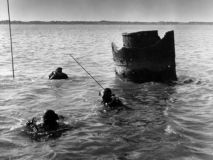 From U.S. Navy public domain Photo #: NH 53685 USS Harvest Moon (1864-1865) SCUBA Divers use rods to probe the area of the ship's wreck, circa 1963. Note the remains of her smokestack nearby. Harvest Moon was sunk by a mine in Georgetown Bay, South Carolina, on 1 March 1865. Courtesy of Walter McDonald. U.S. Naval Historical Center Photograph.